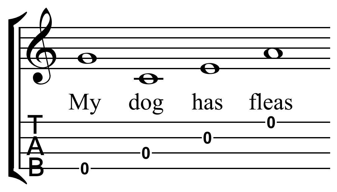 "My dog has fleas", ukuleke tuning. Created by Hyacinth (talk) 03:32, 7 January 2012 (UTC) using Sibelius 5.